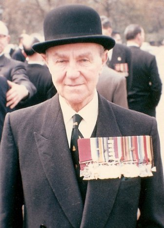 Scanned and cropped from a photograph of Sir John Smyth VC (1893-1983)